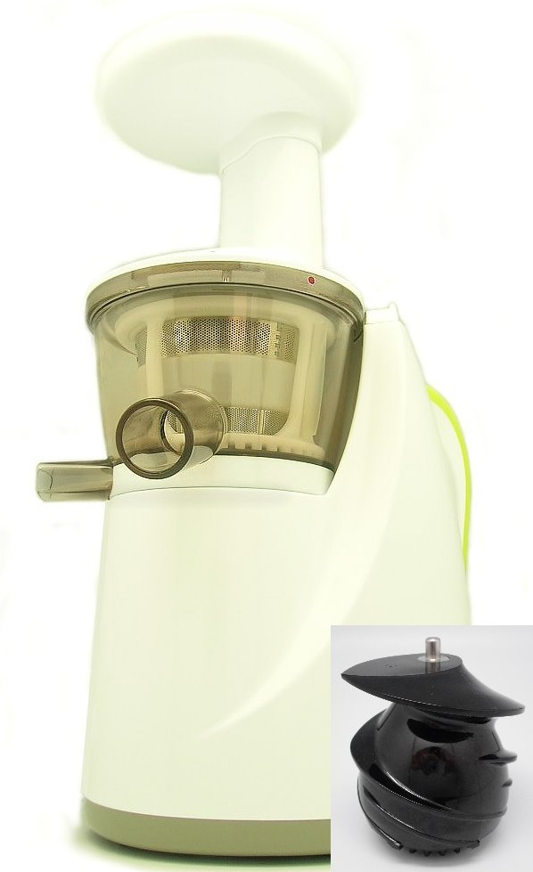 hurom Juicer and auger